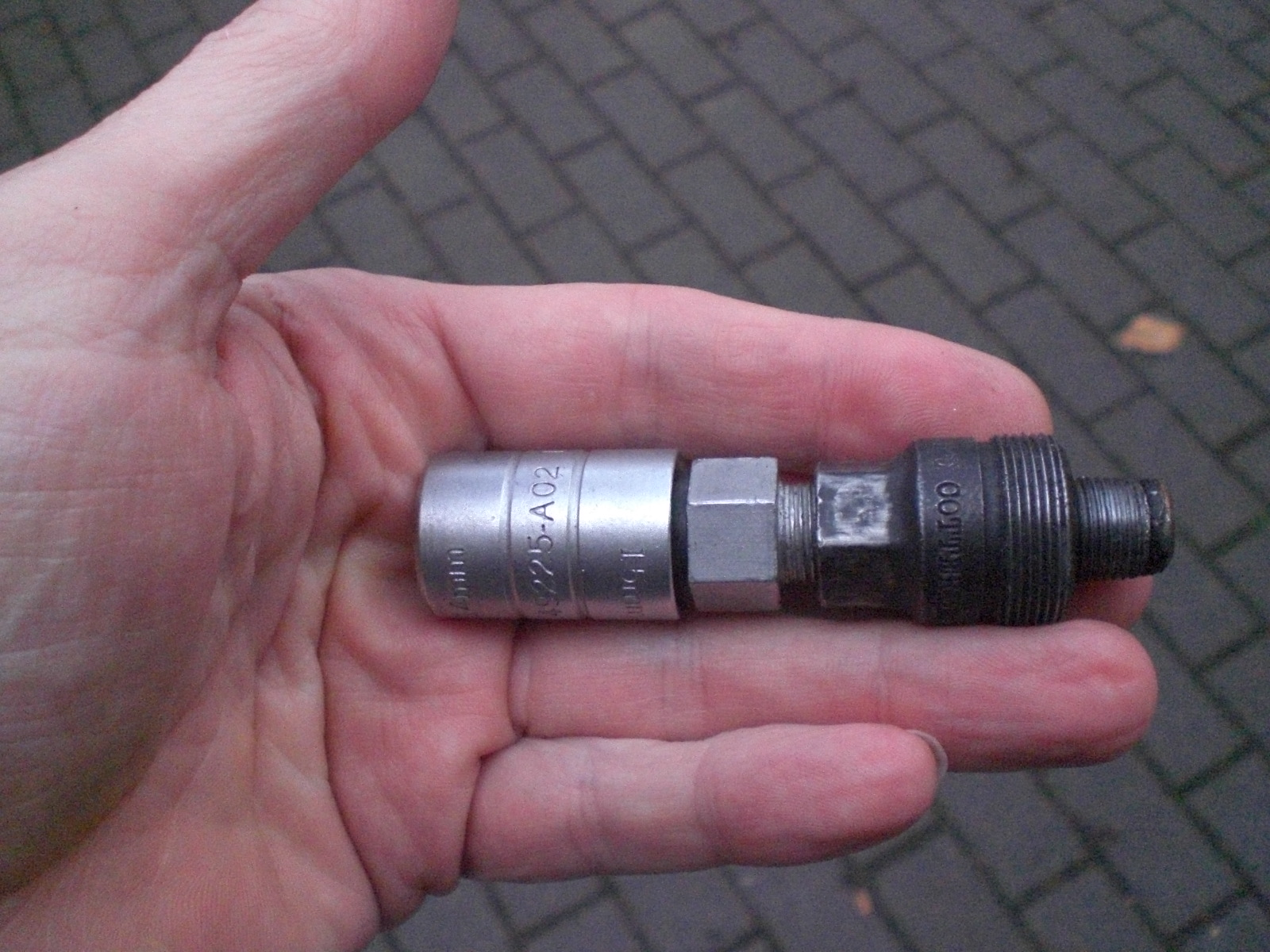 bike crank puller